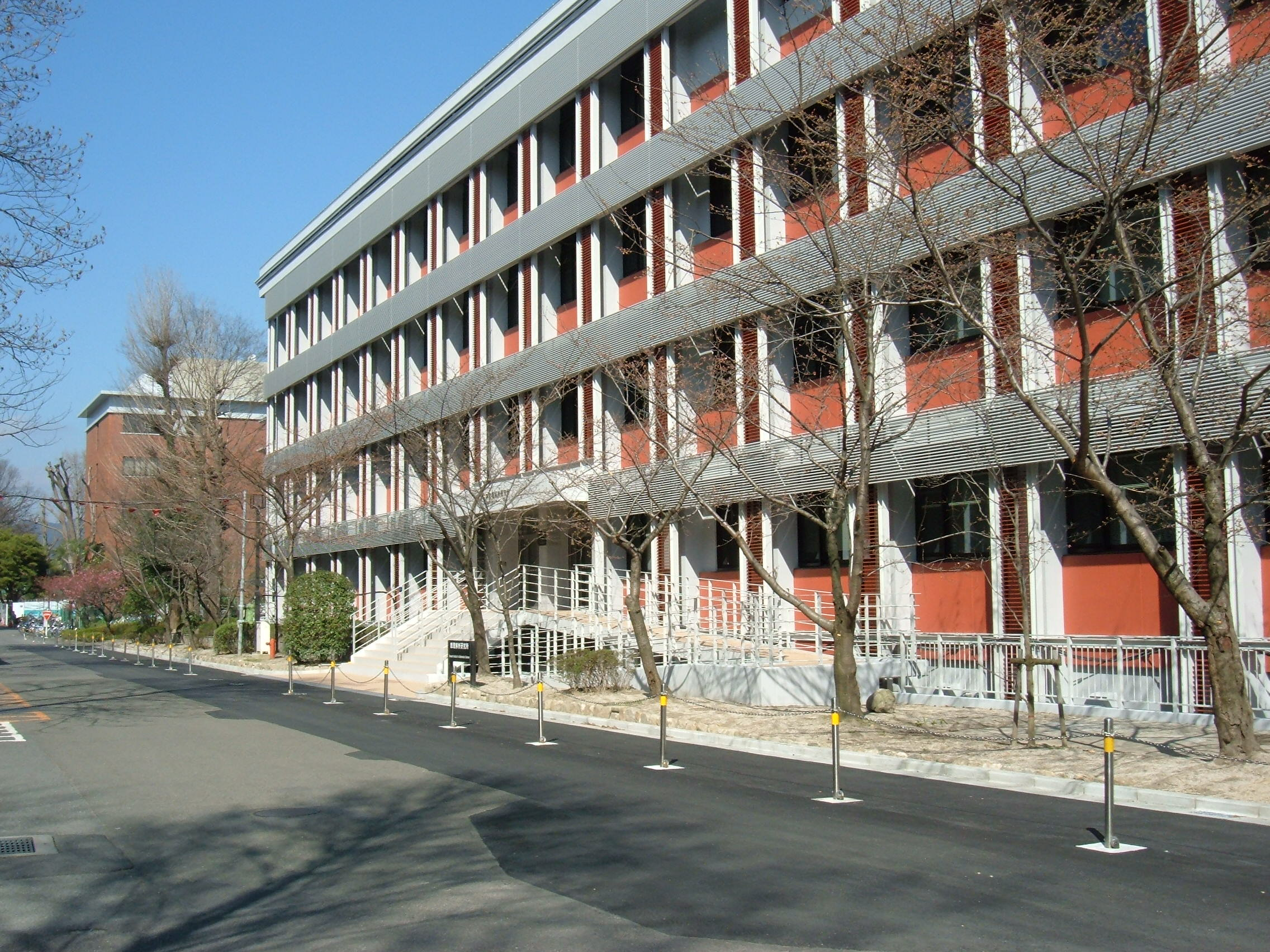 Research Institute for Mathematical Sciences, Kyoto University (Yoshida North Campus)